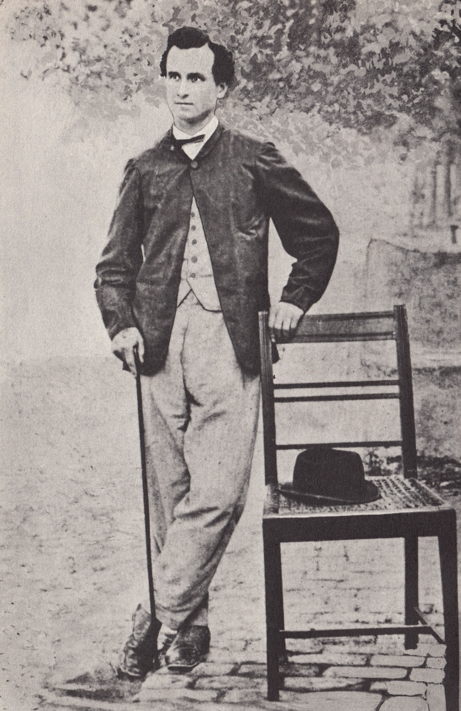 Stephanus Jacobus du Toit as a student at the Stellenbosch seminary, taken in about 1870